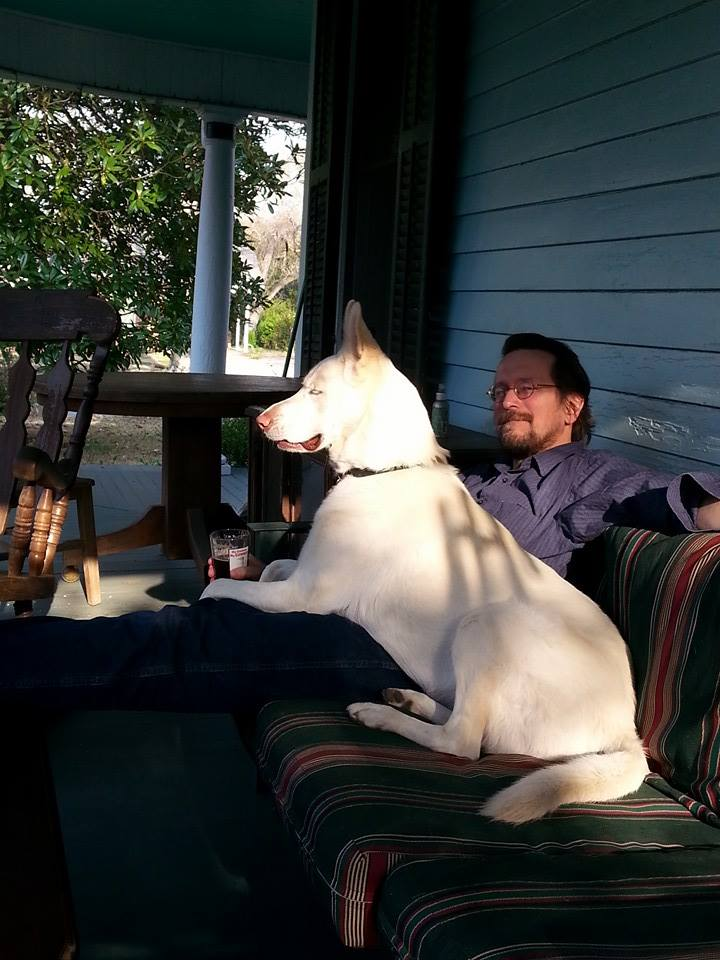 Picture of Paul J. Heald and Wilbur the Dog